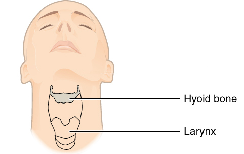 The hyoid bone in the throat.